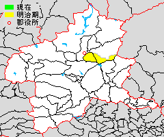 Map showing extent of former Kitaseta District, Gunma, Japan